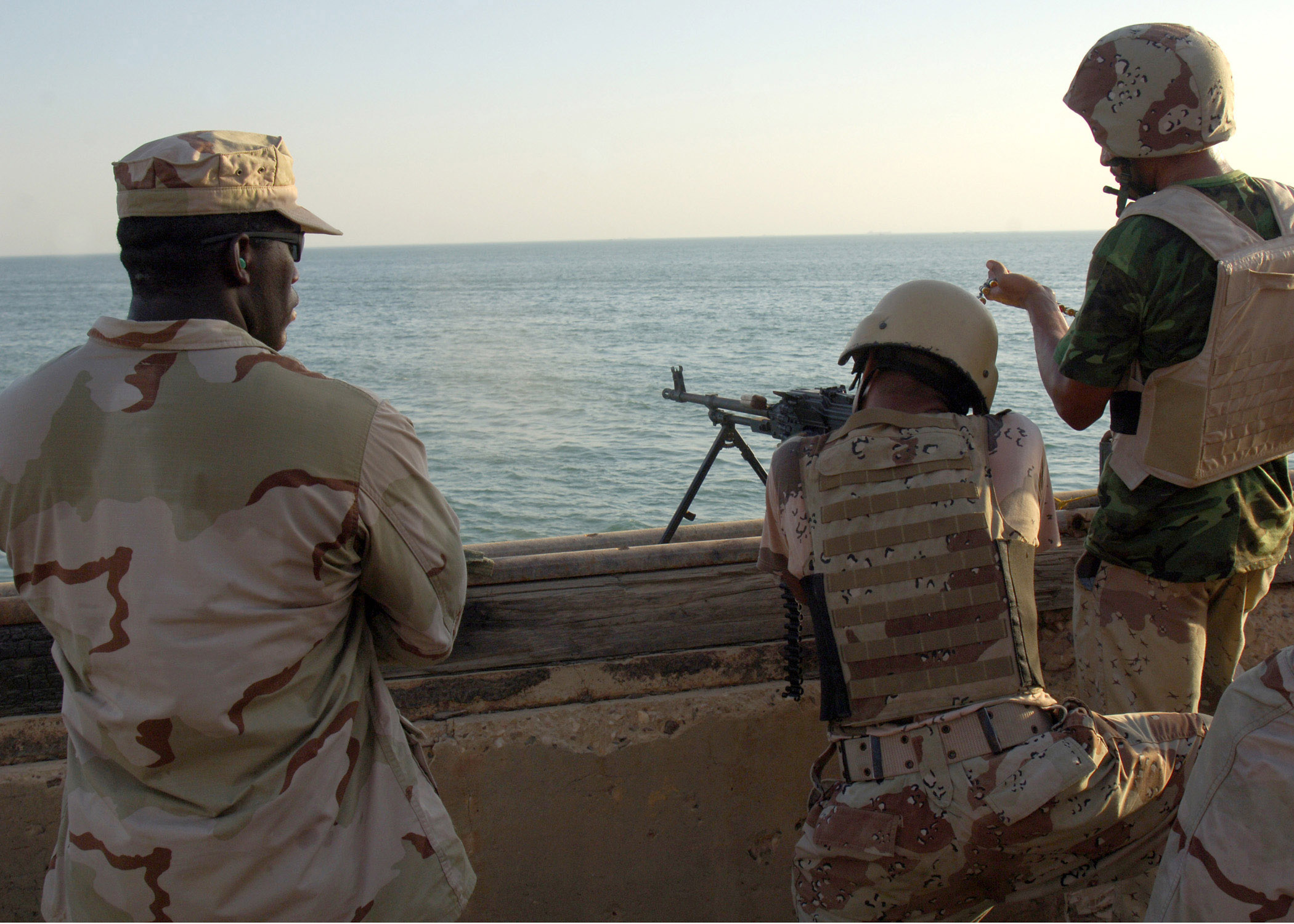 KHAWR AL AMAYA OIL TERMINAL, Iraq (Aug. 4, 2007) - Gunner's Mate 2nd Class Nickel Samuel assigned to Mobile Security Detachment (MSD) 24 observes Iraqi marines participating in a live-fire exercise. MSD-24 is training Iraqi marines to maintain security in and around the Al Basrah and Khawr Al Amaya Oil Terminals, which provides the Iraqi people the opportunity for self-determination. U.S. Navy photo by Mass Communication Specialist 2nd Class Christopher T. Smith (RELEASED)